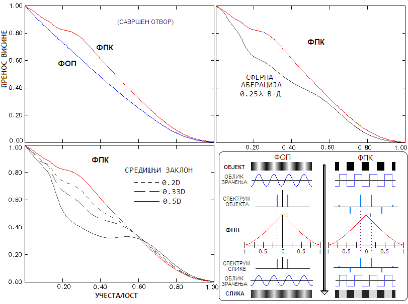 ФУНКЦИЈА ОПТИЧКОГ ПРЕНОСА И ФУНКЦИЈА ПРЕНОСА КОНТРАСТА